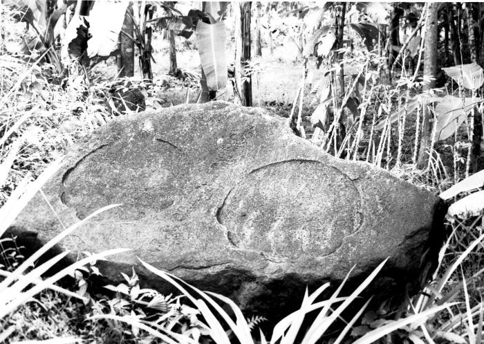 'Tapak gajah, a stone with inscriptions and elephant footprints near Buitenzorg